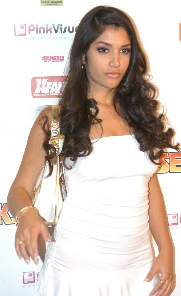 Pornographic actress Leah Jaye at Listeners Choice Awards, December 2 2006